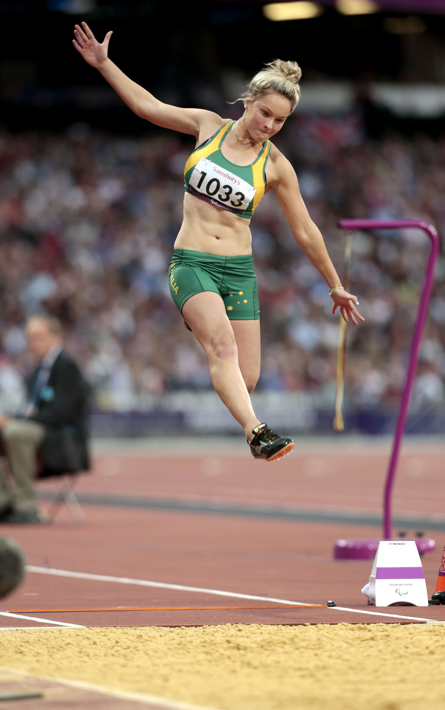 Photograph of Australian Paralympic team member Stephanie Schweitzer at the 2012 Summer Paralympic Games in London